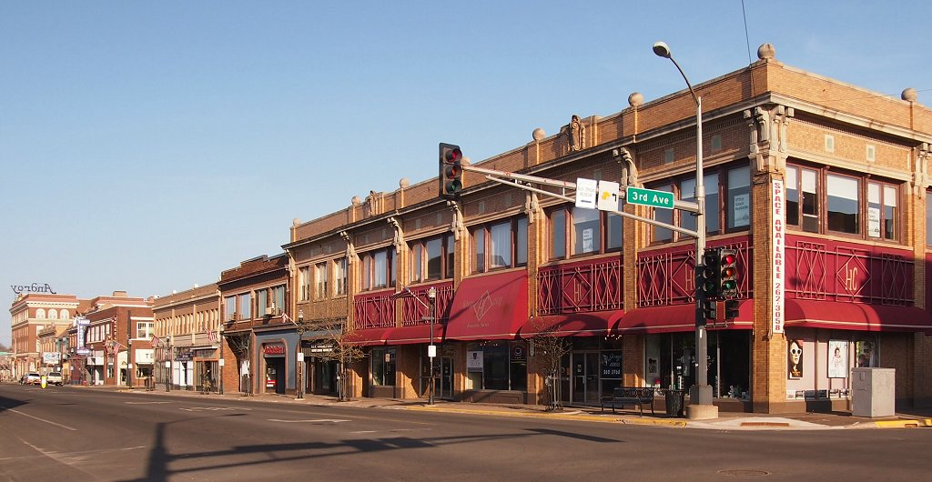 East Howard Street Commercial Historic District from 3rd Avenue looking southeast, Hibbing, Minnesota, USA. Individually listed contributing property the Androy Hotel is visible on the far left.